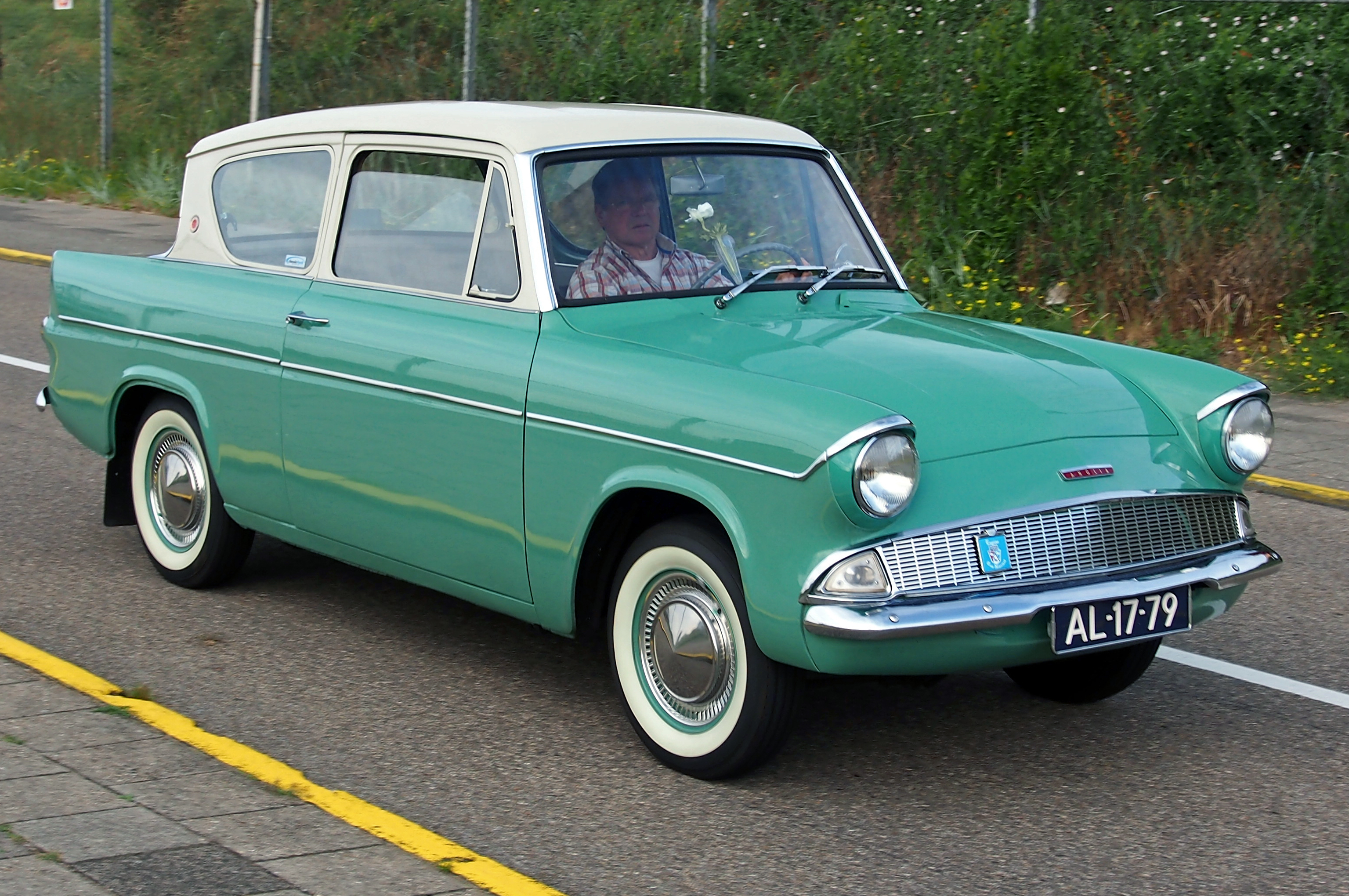 Photographed at the Nationaal Oldtimer Festival Zandvoort 2014, The Netherlands.